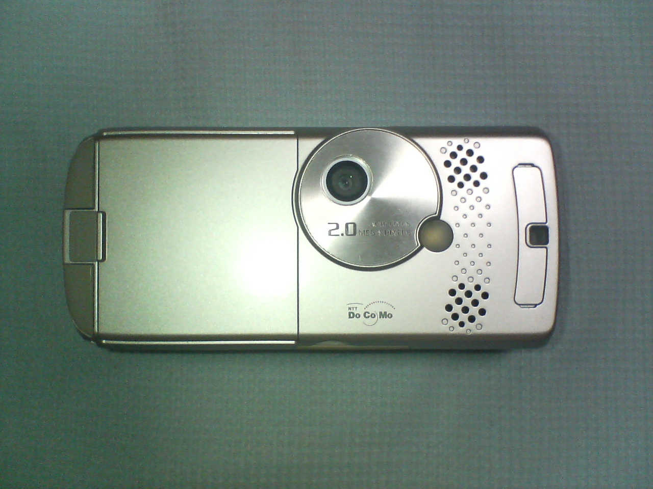 NTT DoCoMo FOMA D901i by Mitsubishi Electric, Sterling Silver, main camera on the back. The camera in the middle of the back uses Super CCD Honeycom system. Both its effective pixel number and recording pixel number are 2.0 million pixels. Because it's a slide-style phone, when you use its camera function, you can hold and operate it like a real digital camera. NTTドコモ FOMA D901i、三菱電機製、スターリングシルバー、背面。 中央のカメラには、有効画素数、記録画素数ともに2メガピクセルのスーパーCCDハニカムが採用されている。 スライドスタイルのため、写真撮影のときには、デジタルカメラのように構え、操作することが可能。